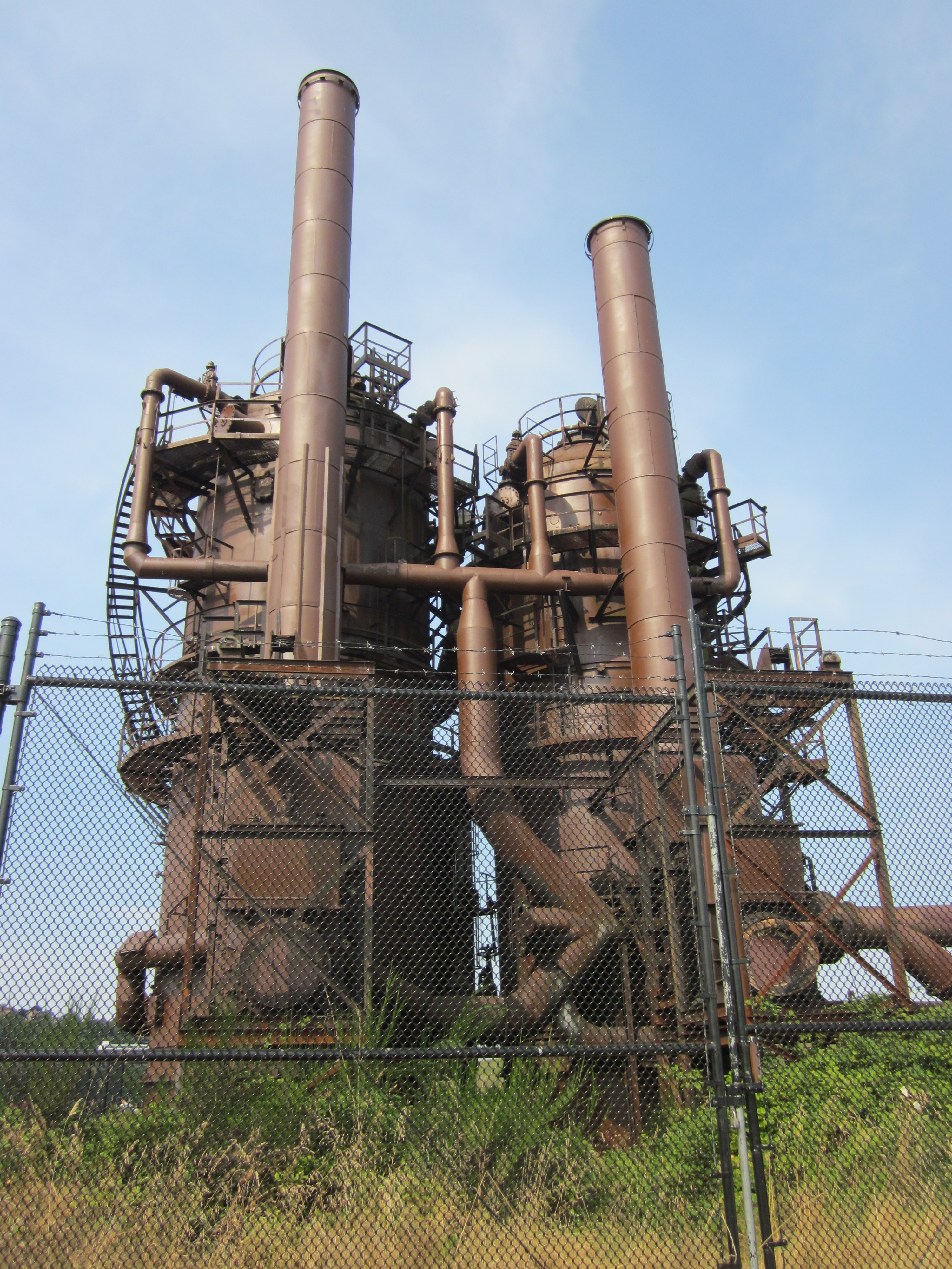 Gas Works Park, Seattle, Washington. Two of the remaining towers, seen from the south